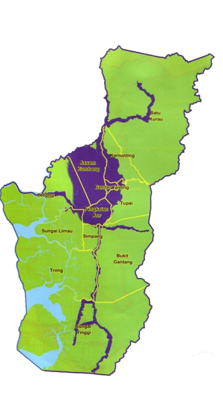 Taiping Municipal Council Map